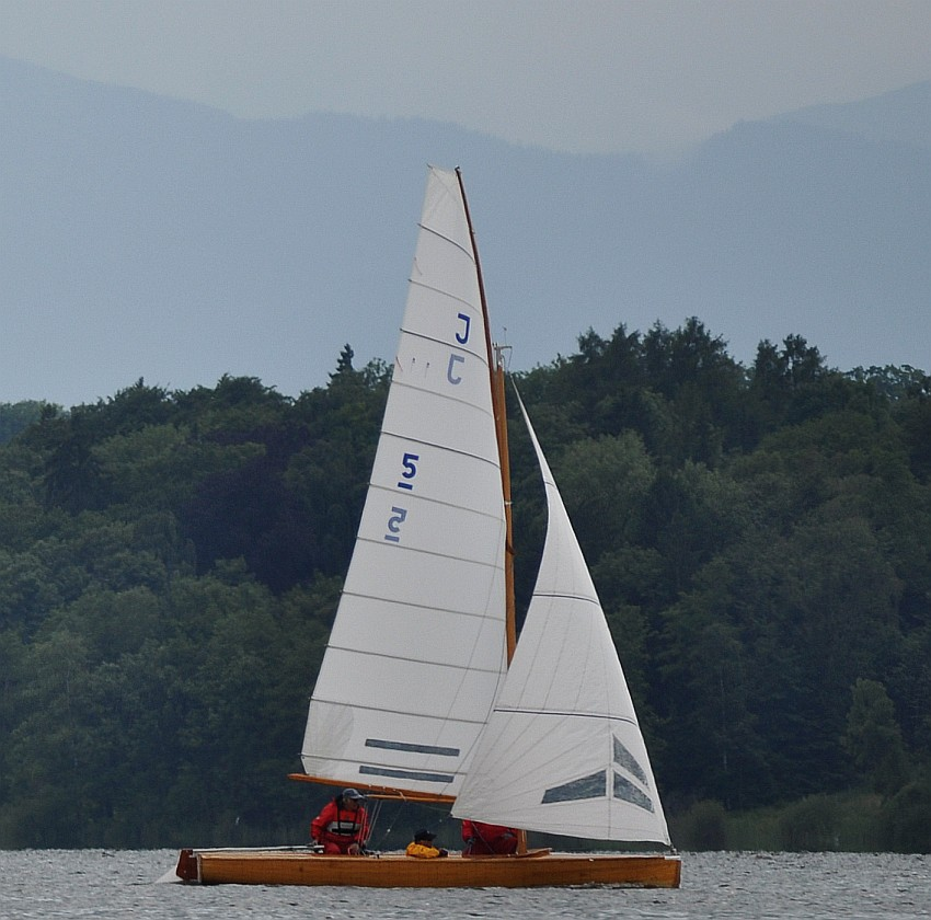 J-Jolle